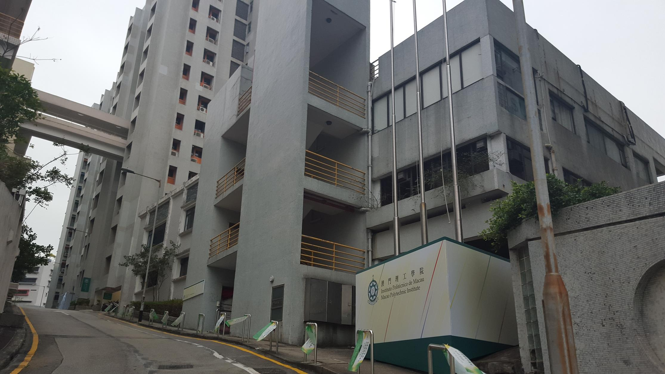 Macao Polytechnic Institute